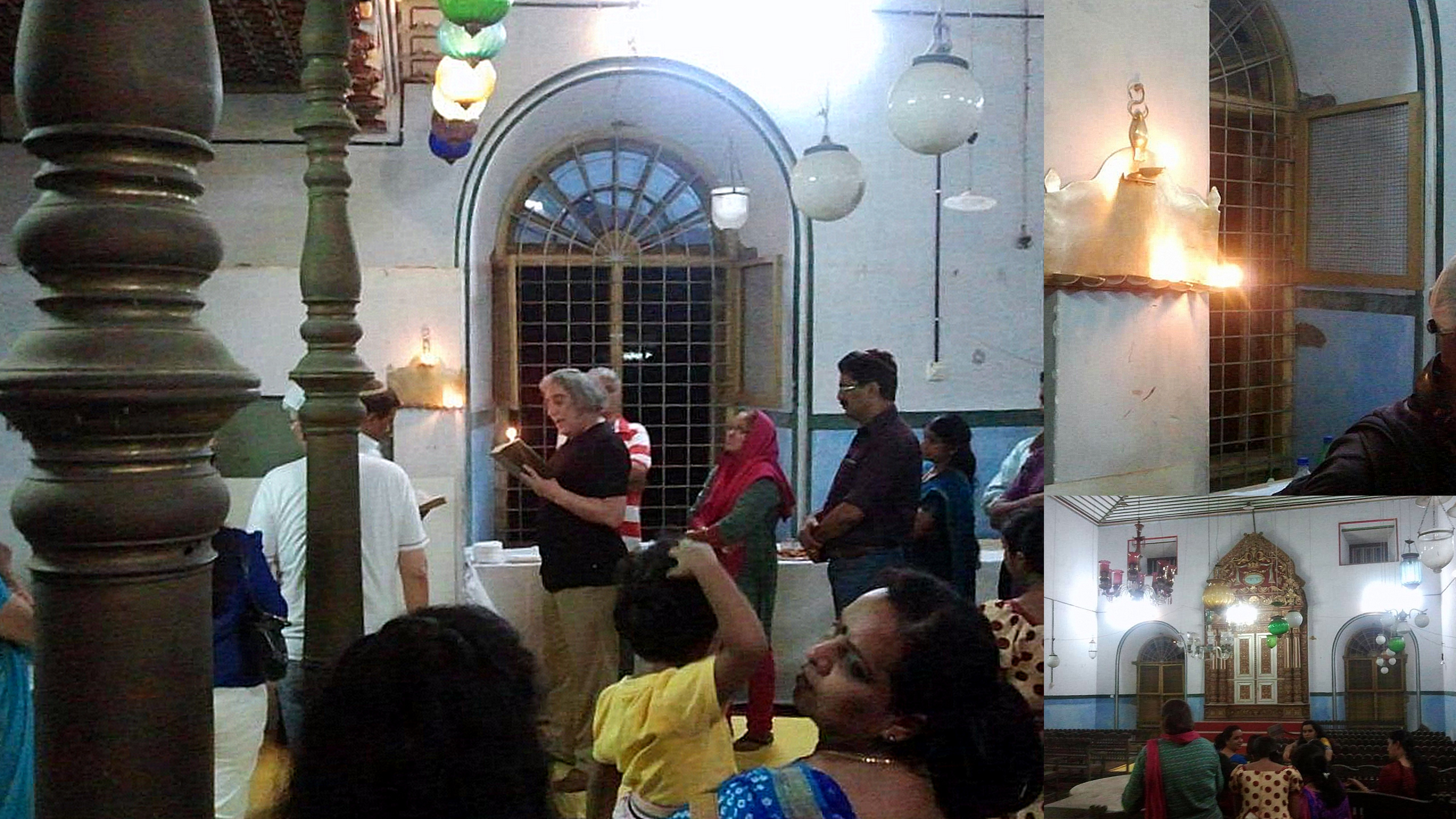 Chanukkah in Kerala, India - My friend Siji Nikathil photos from Hanukkah function at Jewish synagogue in the city of Ernakulam - December 2012 - pronounced 'Hanukahy' in Malayali language. Photo collage by Etan Doronne